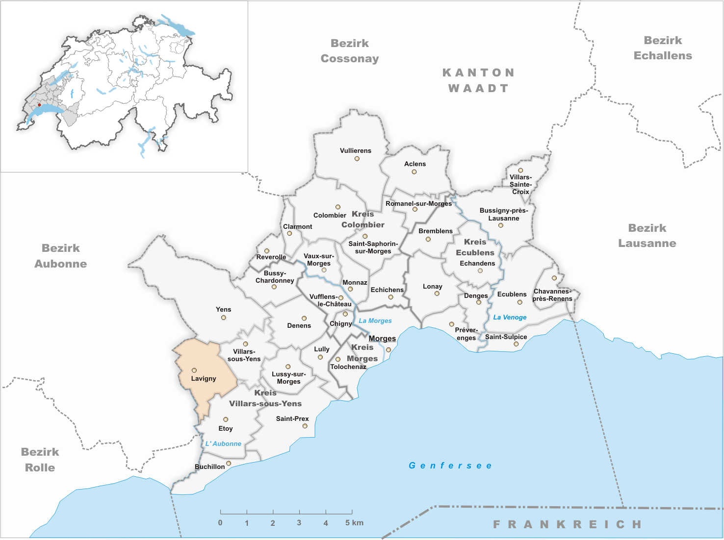 Municipality Lavigny